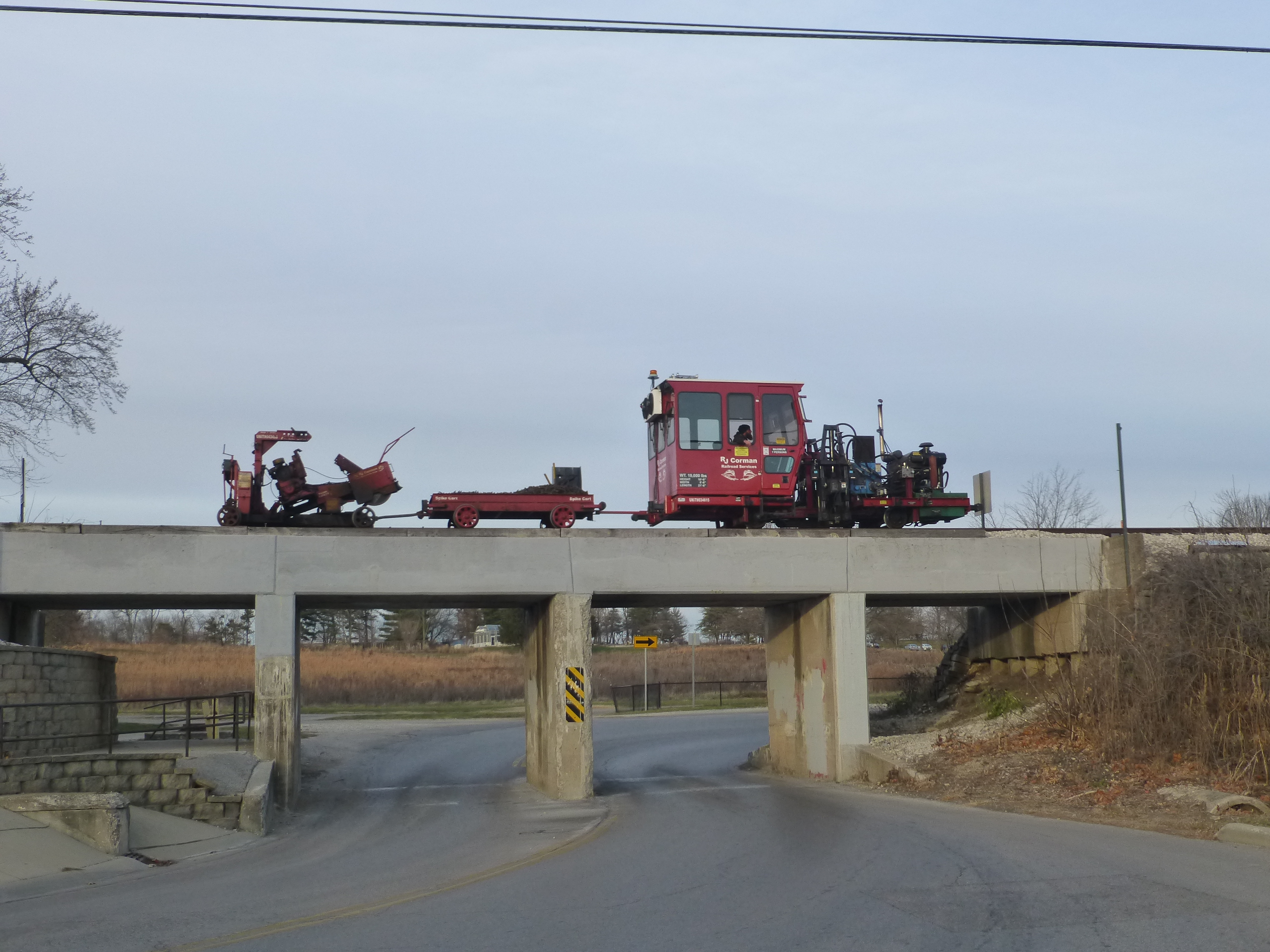 Railway construction or maintenance equipment traveling east on the Indiana Rail Road tracks in Bloomington, Indiana. The tracks here run on an overpass over E 10th St.